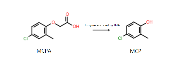 Bio-degradation of MCPA by soil microbes